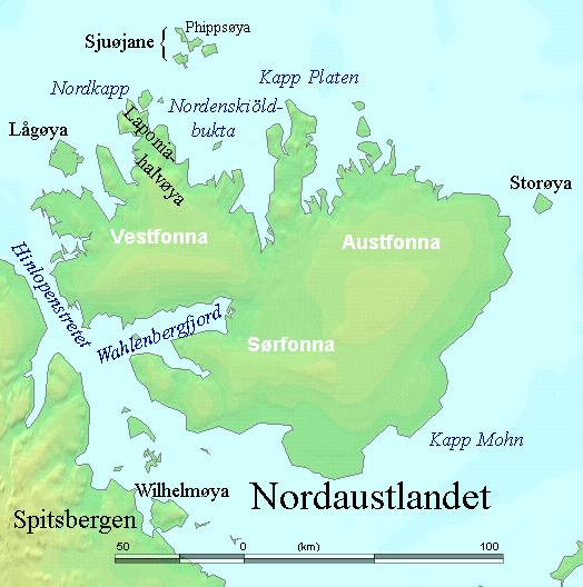 Map detailing the marine features of Spitsbergen in the Svalbard archipelago. Settlements and mountains are indicated and labelled. See also Image:Spitsbergen mountains and marine features labelled.png. Locations were labelled mainly based on detailed maps from (sample of south Spitsbergen linked), cross-referenced with other map sources where possible. Norwegian Polar Institute figures were used for mountain names and heights, which are given in meters above sea level.